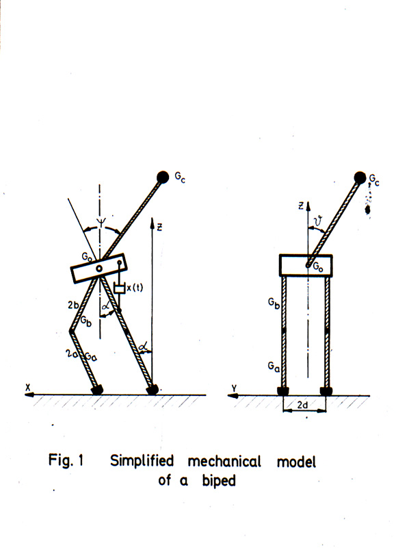 Part of the presentation of Professor Miomir Vukobratović in Yerevan in 1968., the zero-moment point theory